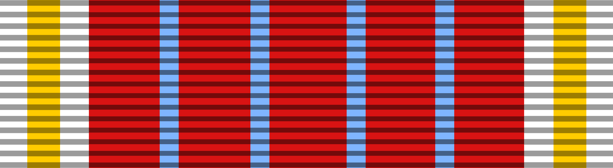 Ribbon of the Signum Sacri Itineris Hierosolymitani (Jerusalem Pilgrim's Cross).